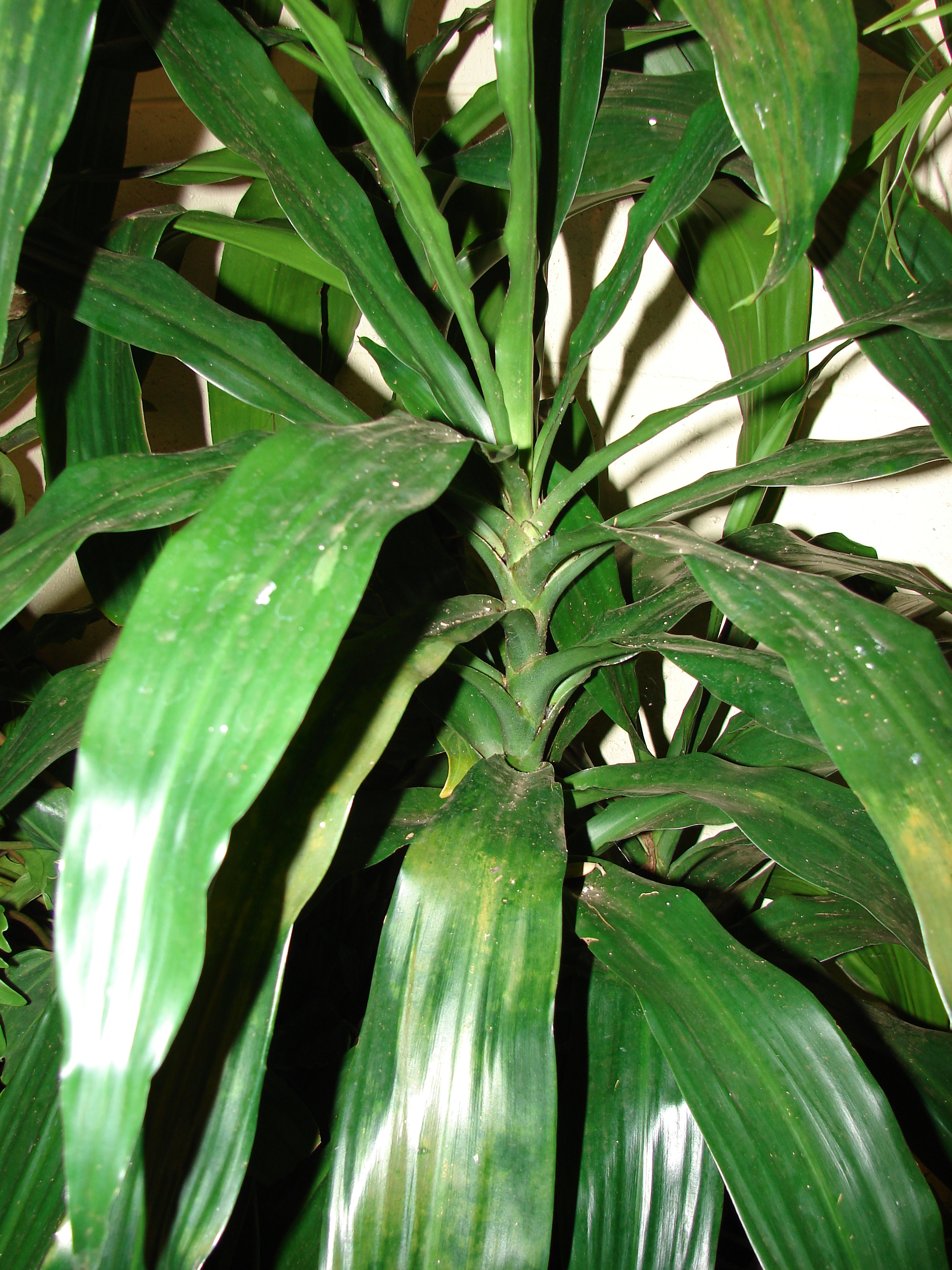 Dracaena fragrans (habit). Location: Maui, Kula Ace Hardware and Nursery